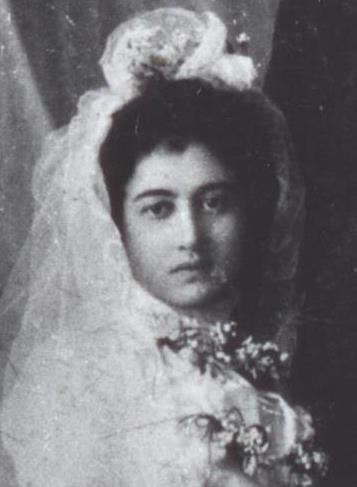 Bulgarian actress Donka Gyuzeleva (1879-1973), on her wedding with the theatre director Krastyo Sarafov.